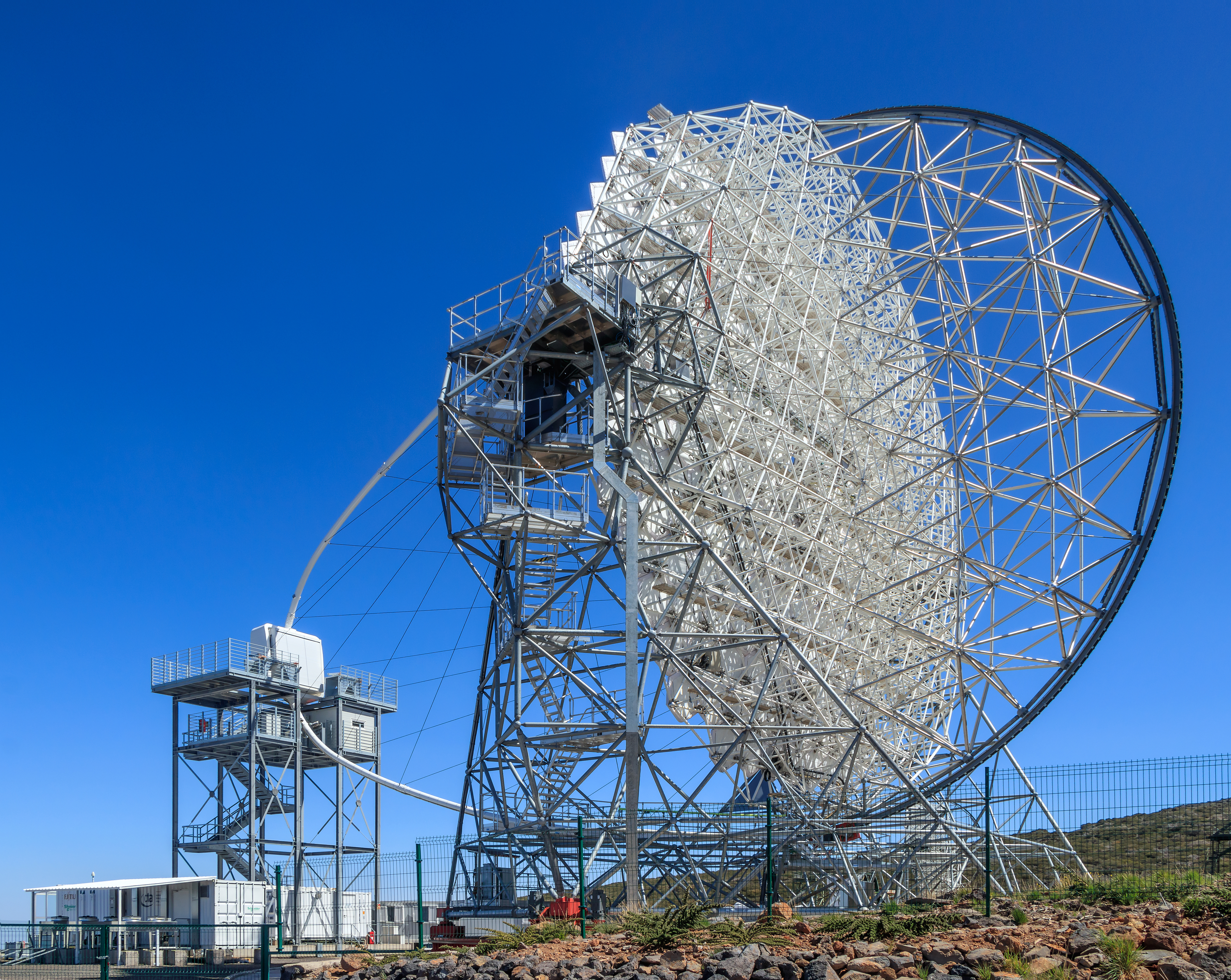 Large-Sized-Telescope LST-1 (LST), Observatorio del Roque de los Muchachos (ORM), Roque de los Muchachos, Garafía, La Palma, Canary Islands, Spain.